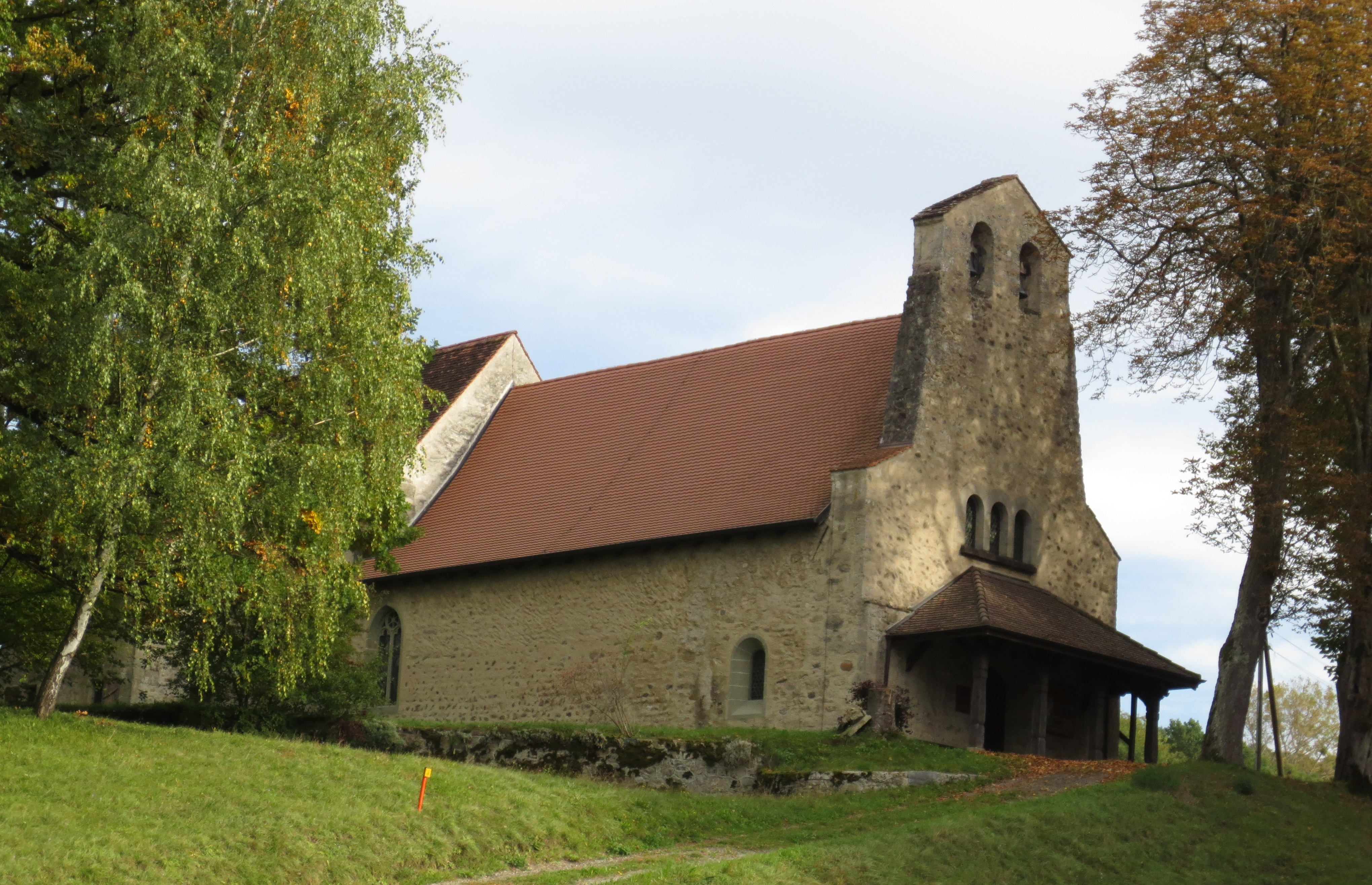 Curtilles Church, Canton of Vaud, Switzerland